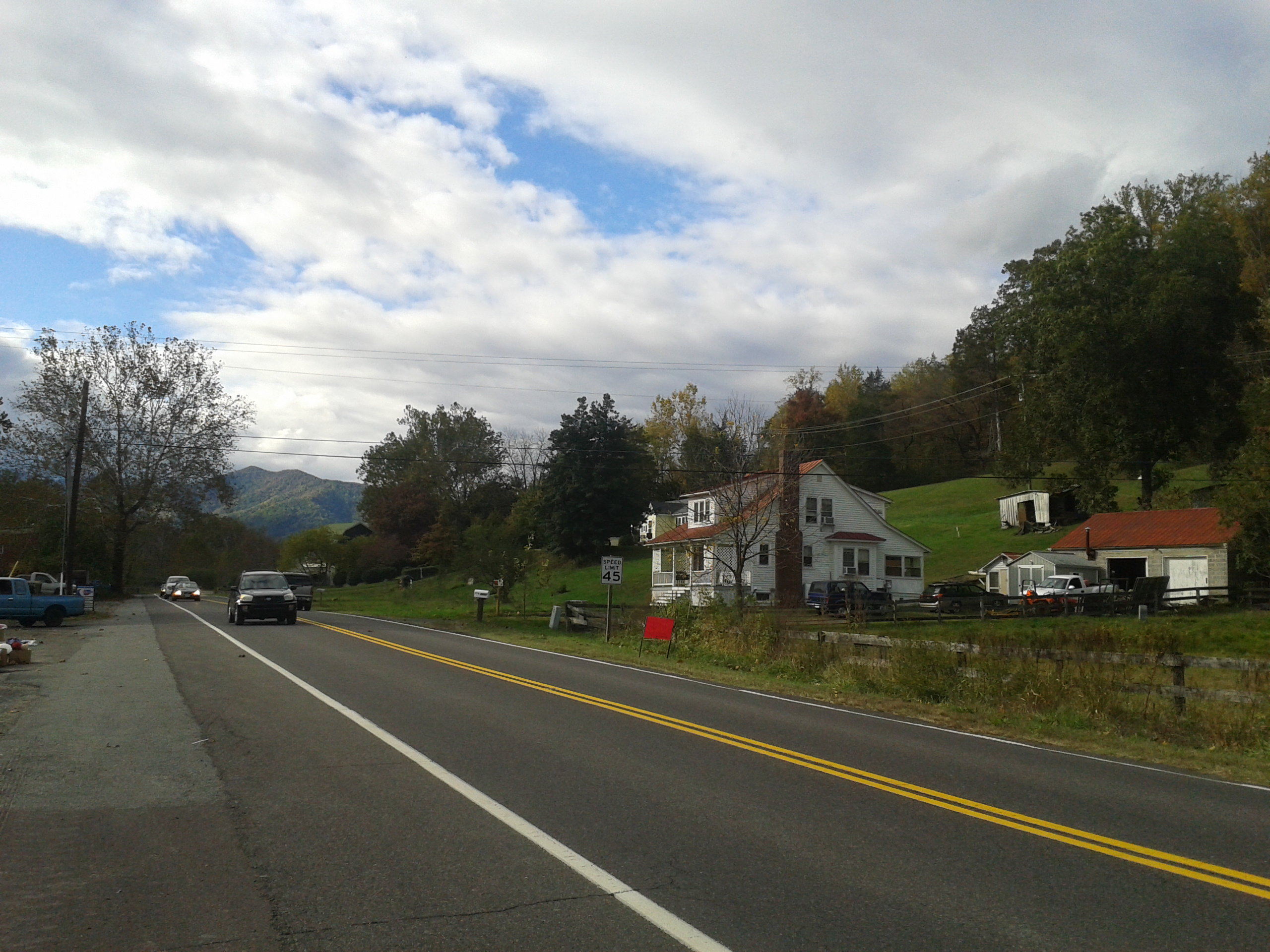 Houses in Banco, Virginia